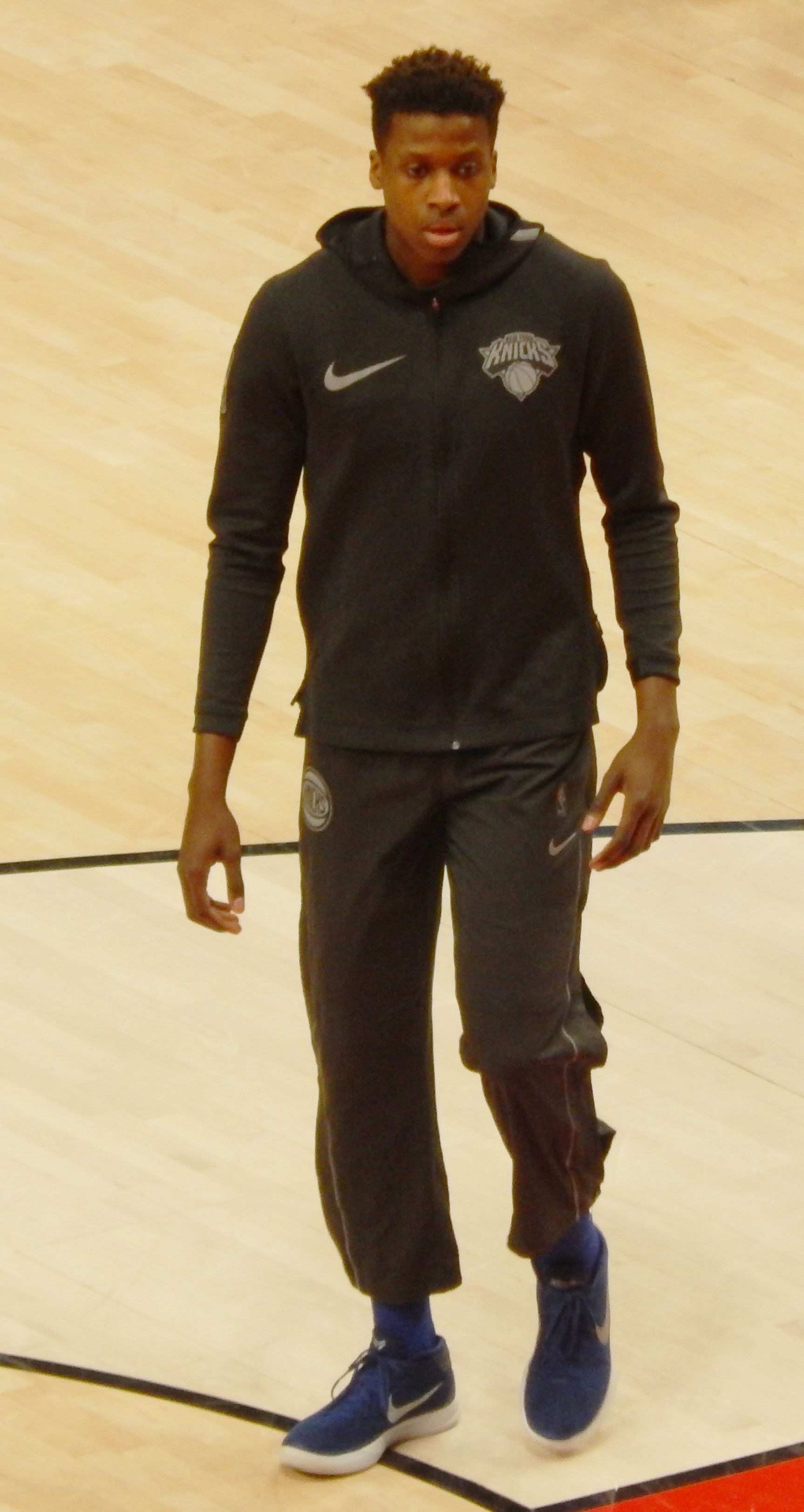 Frank Ntilikina #11 of the New York Knicks against the Portland Trail Blazers on March 6, 2018 at Moda Center in Portland, Oregon.